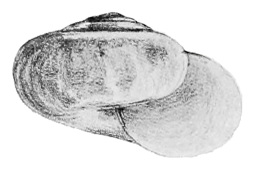 Drawing of apertural view of the shell of Staffordia toruputuensis